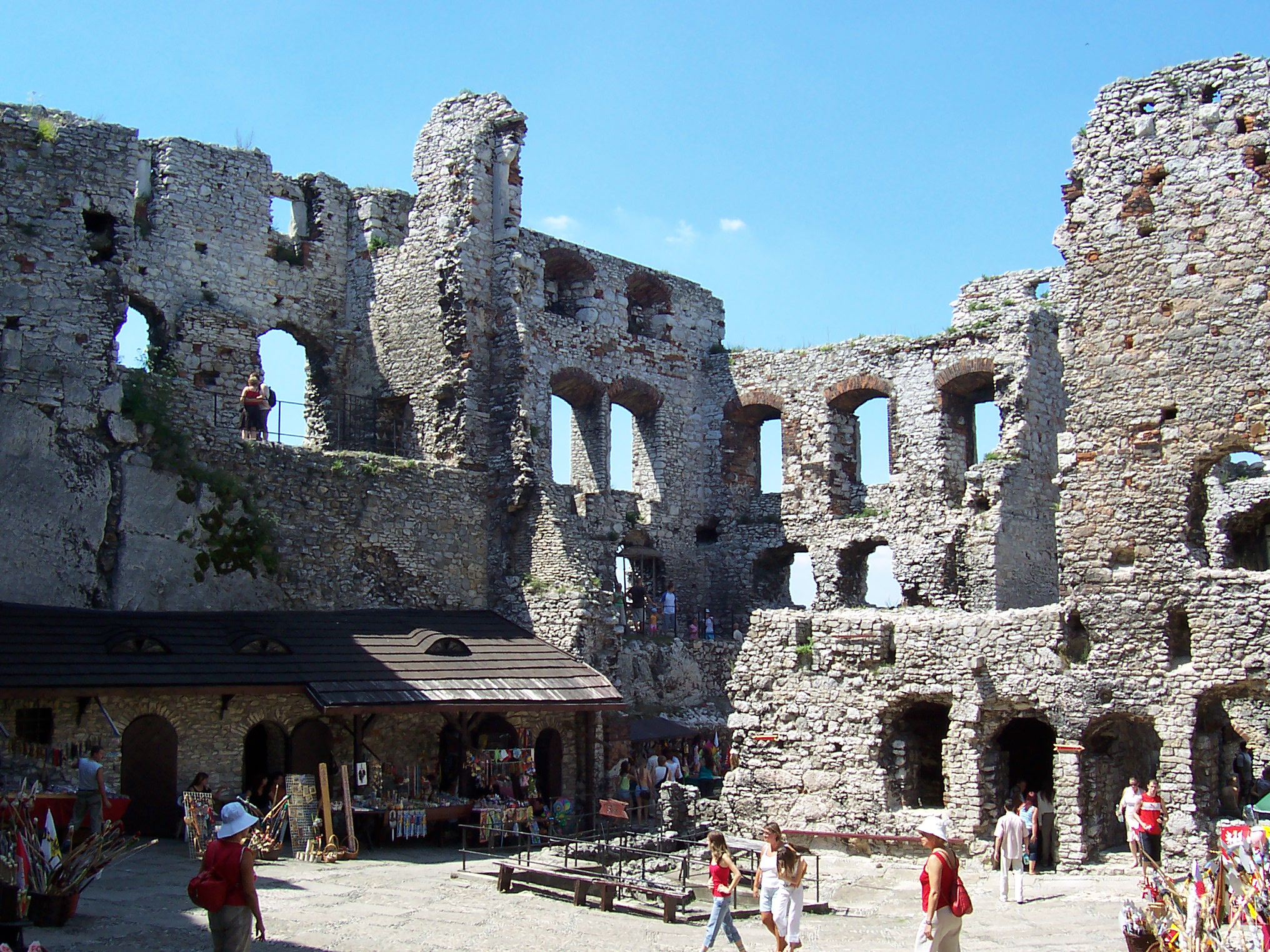 Castle Ogrodzieniec